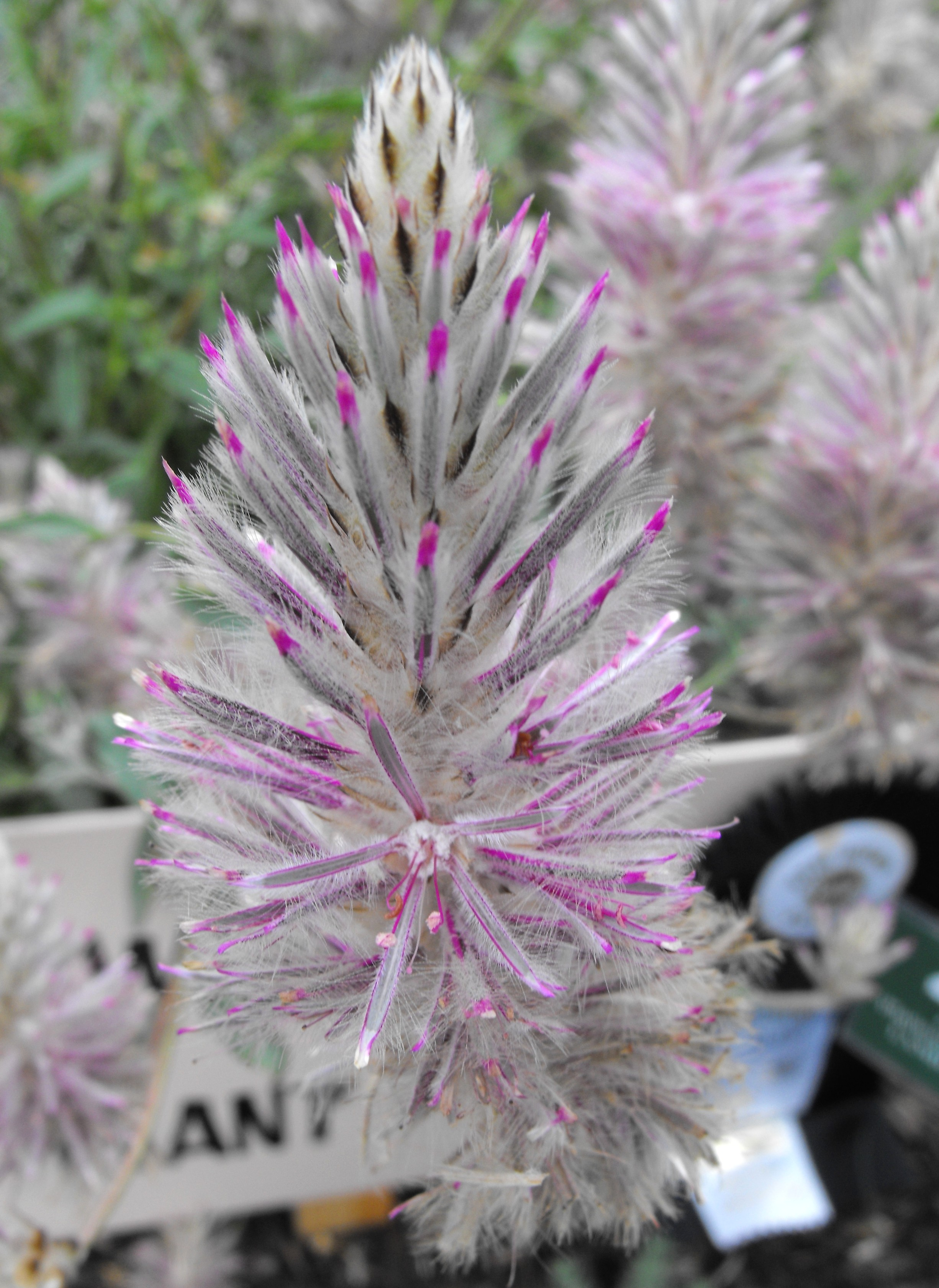 Ptilotus 'Platinum Wallaby' on display at the San Diego County Fair, California, USA. Identified by exhibitor's sign.